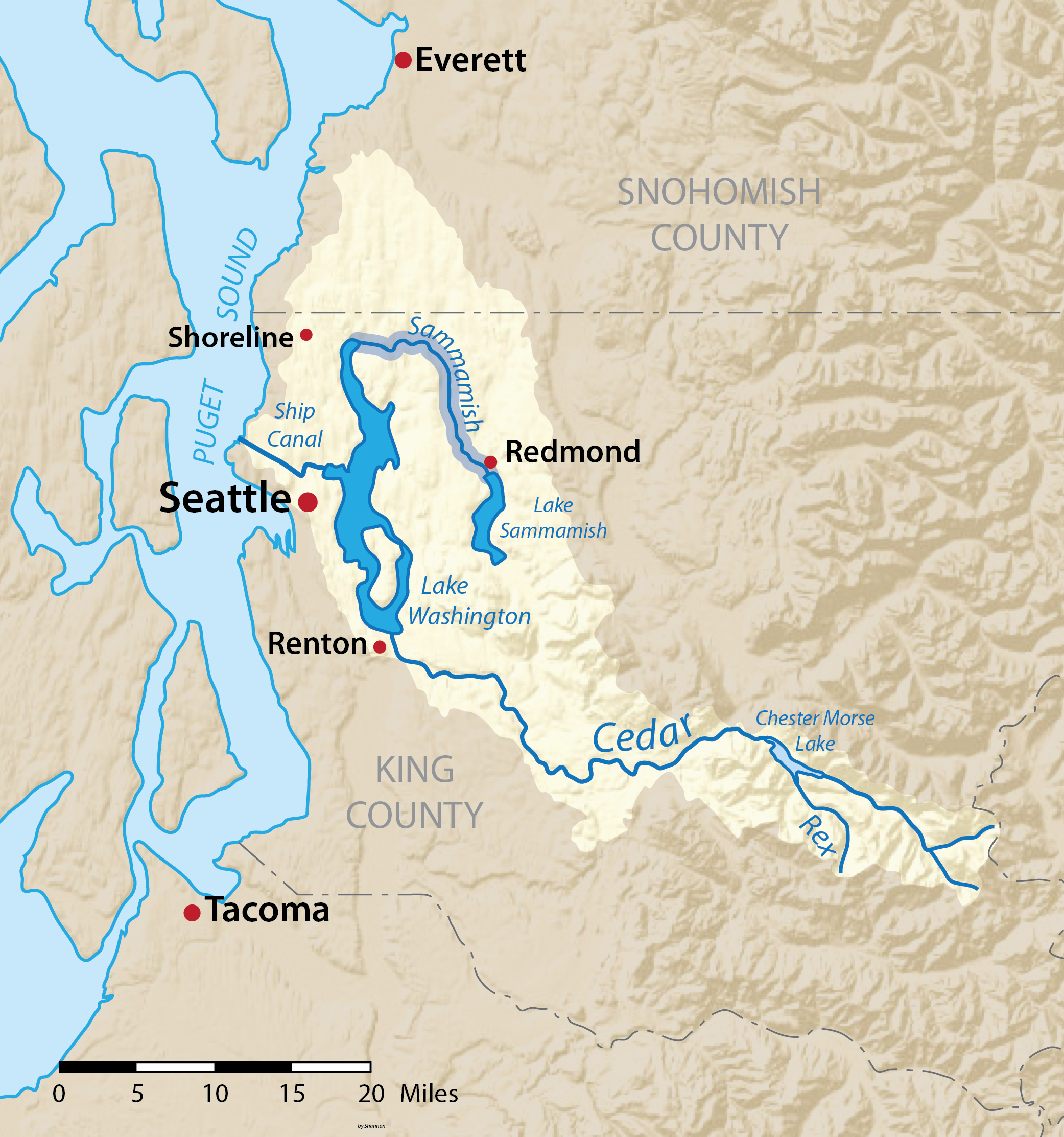 Map of the Lake Washington watershed in Washington, USA with the Sammamish River highlighted. Made using USGS National Map data.